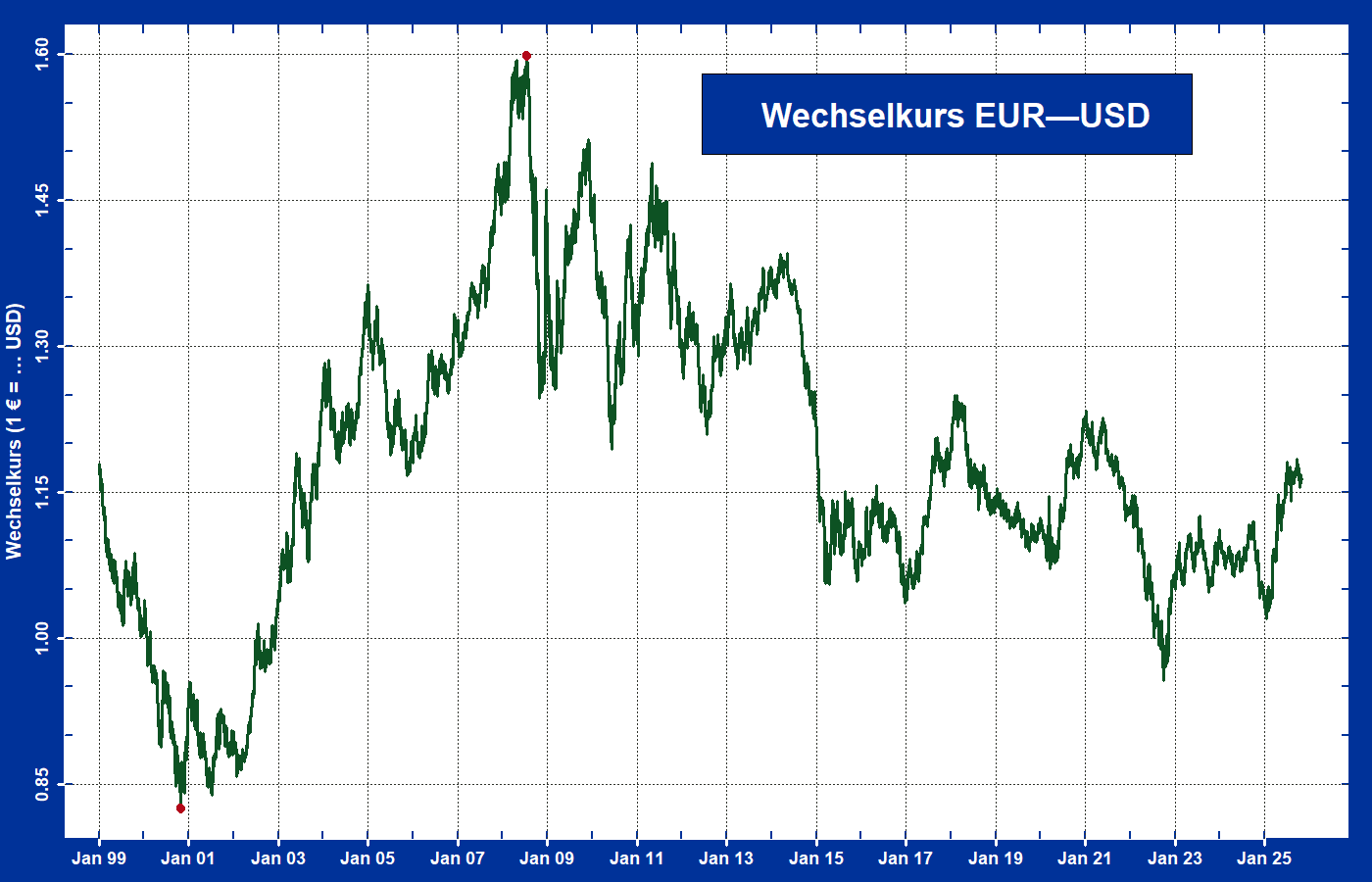 EUR - USD FX (foreign exchange rate) since EUROs do exist. close-notation, but all data available